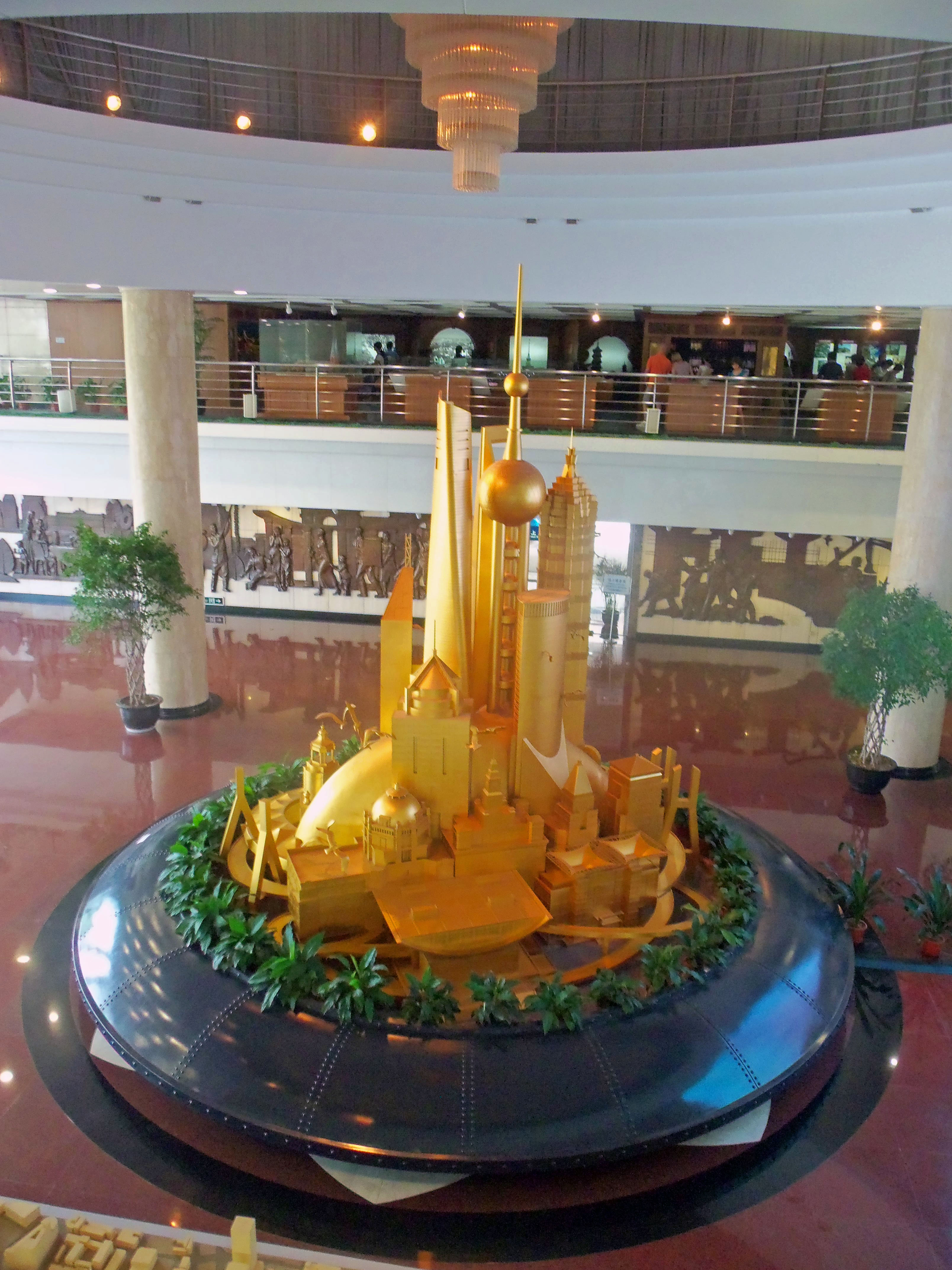 Atrium of Shanghai Urban Planning Exhibition Center, with revolving model of Lujiazui